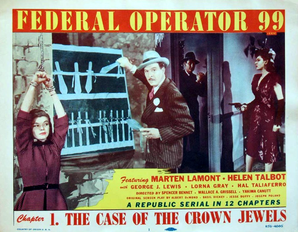 Poster for the first installment of the American film serial Federal Operator 99 (1945).